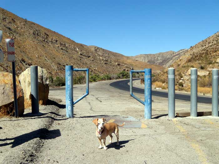 End of public roadway (Golden State Highway) at south entrance to Piru Creek recreation area of the U.S. Forest Service in northwest Los Angeles County. Photo by George Garrigues.